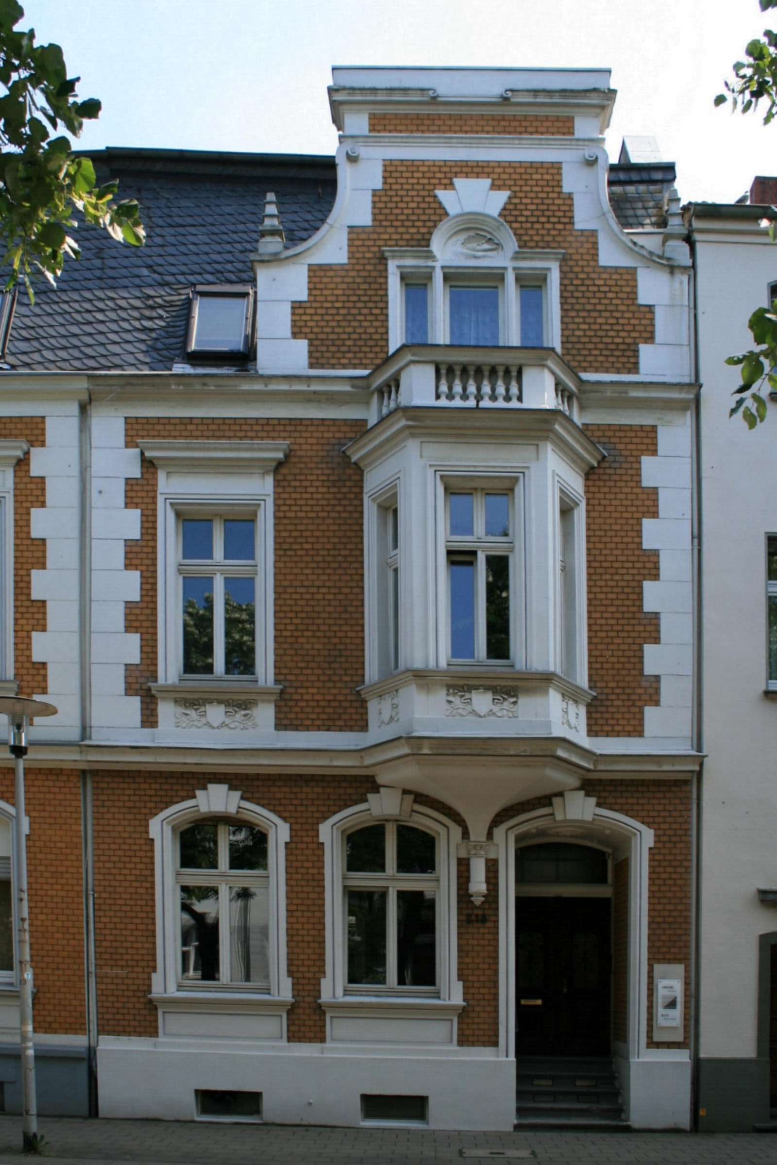 Cultural heritage monument No. B 107 in Mönchengladbach